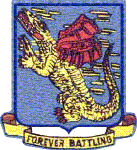 320th Bombardment Wing emblem. A copy of this emblem was down loaded from for use in my book “STRATEGIC AIR COMMAND An Organizational History” with the permission and approval of Marvin T. Broyhill, Webmaster.